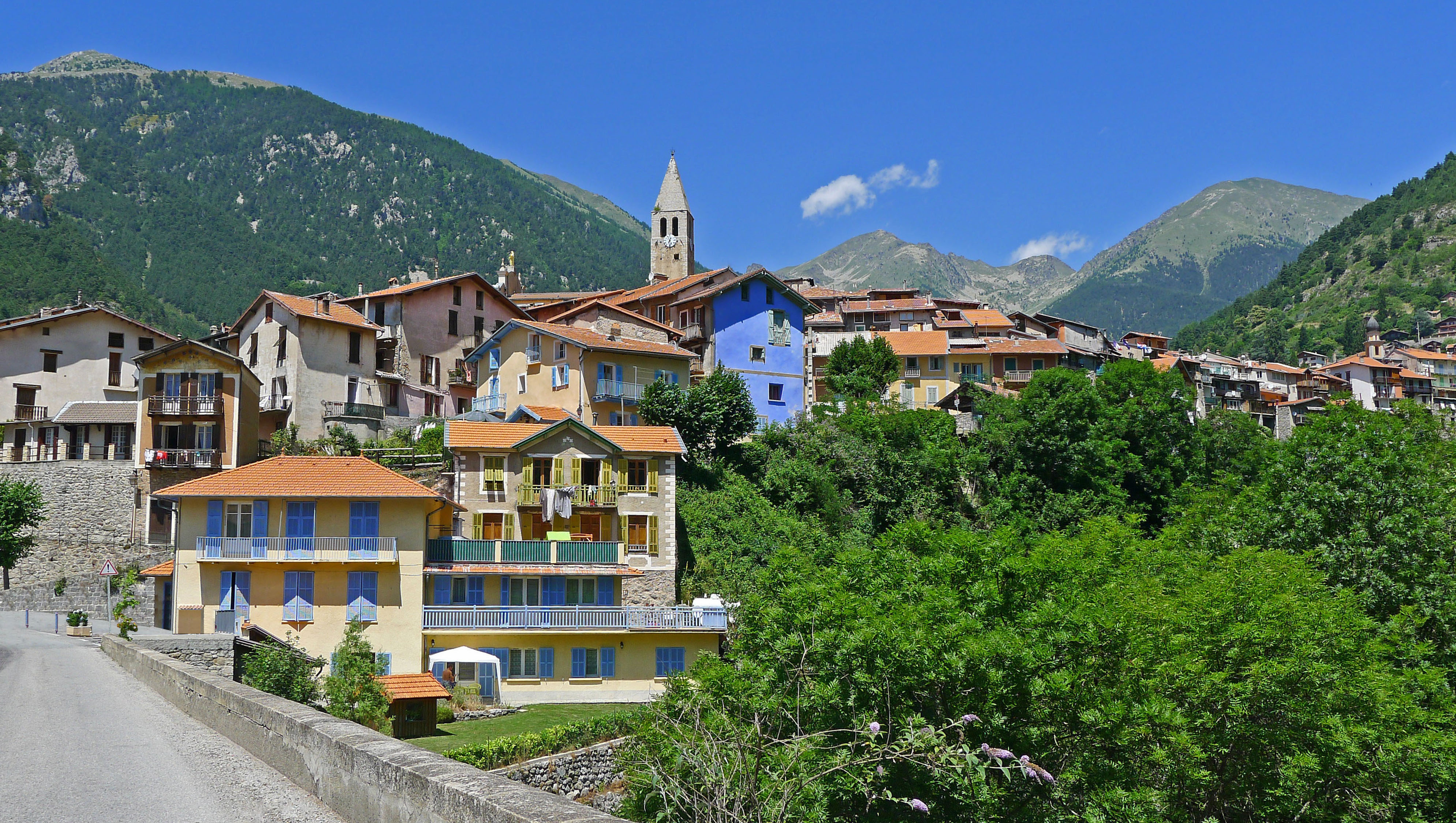 Sight of the Saint-Martin-Vésubie village when arriving from the Var river valley, in Alpes-Maritimes, France.